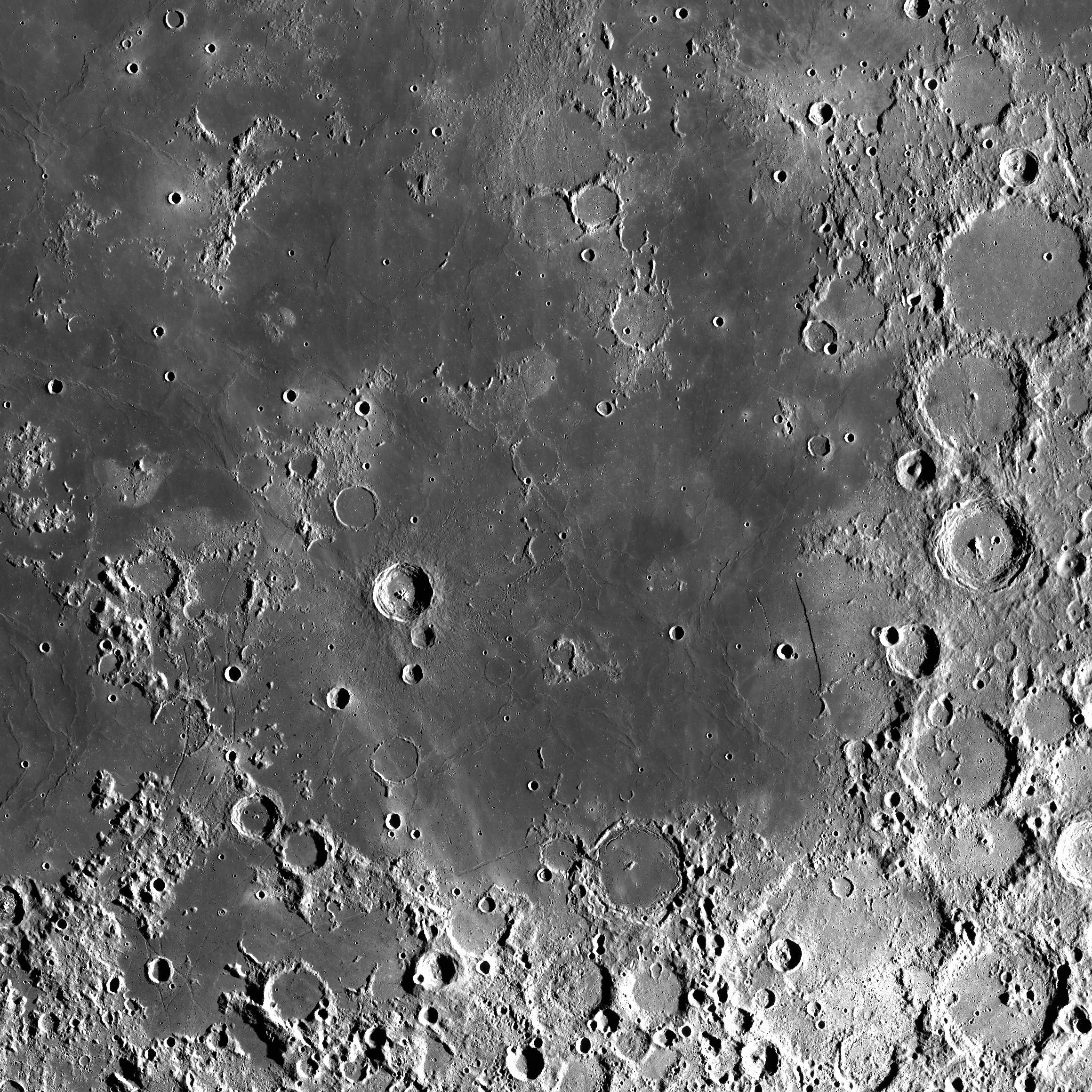 Mare Nubium on the Moon. Mosaic of photos by Lunar Reconnaissance Orbiter, made with Wide Angle Camera. Size of the image is 1100×1100 km, north is up.